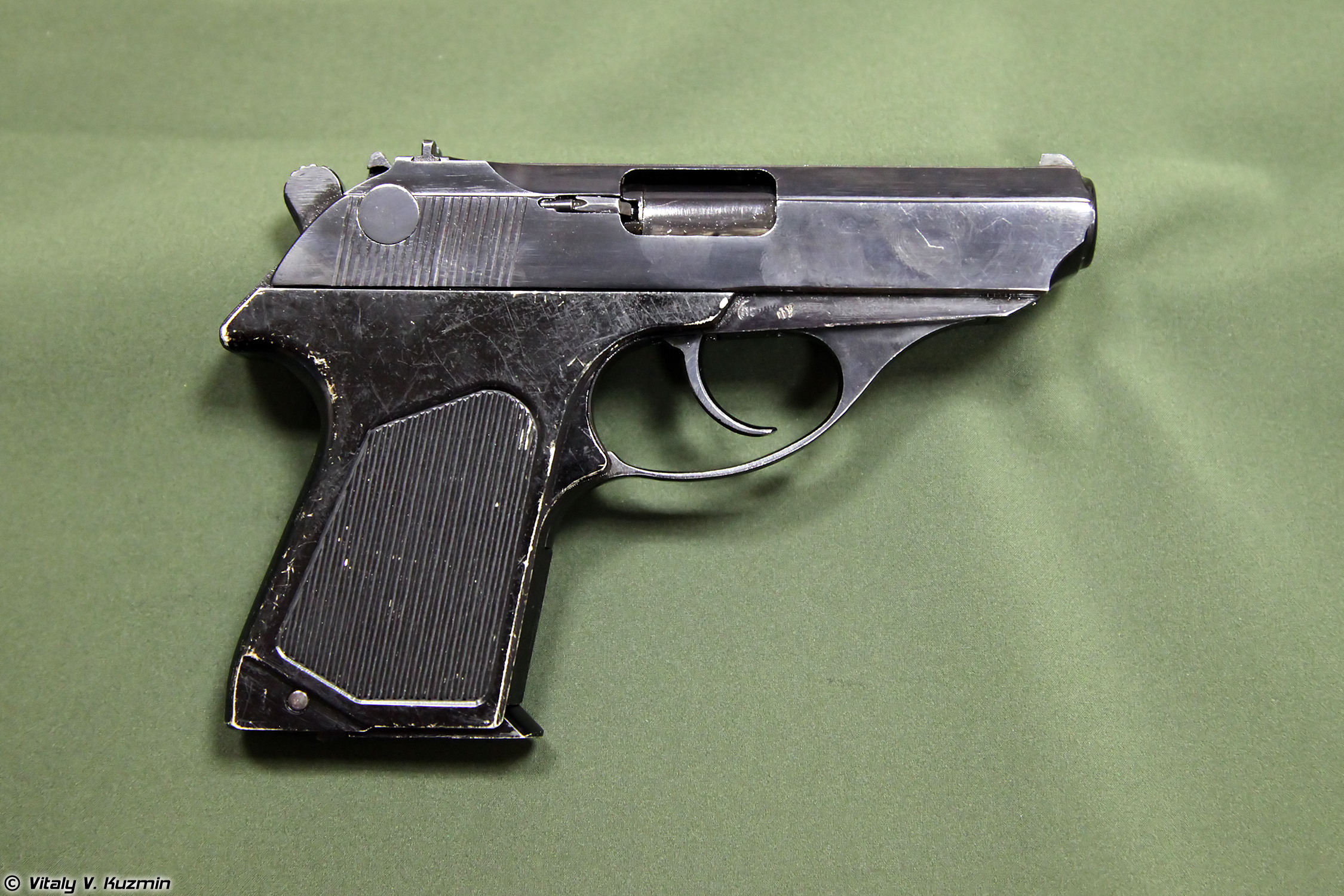 5.45x18 compact pistol PSM